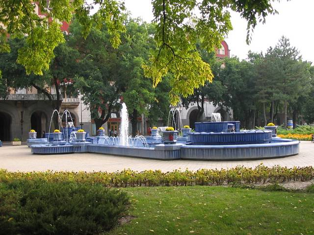 Subotica